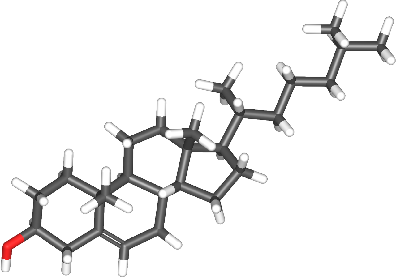 Cholesterol